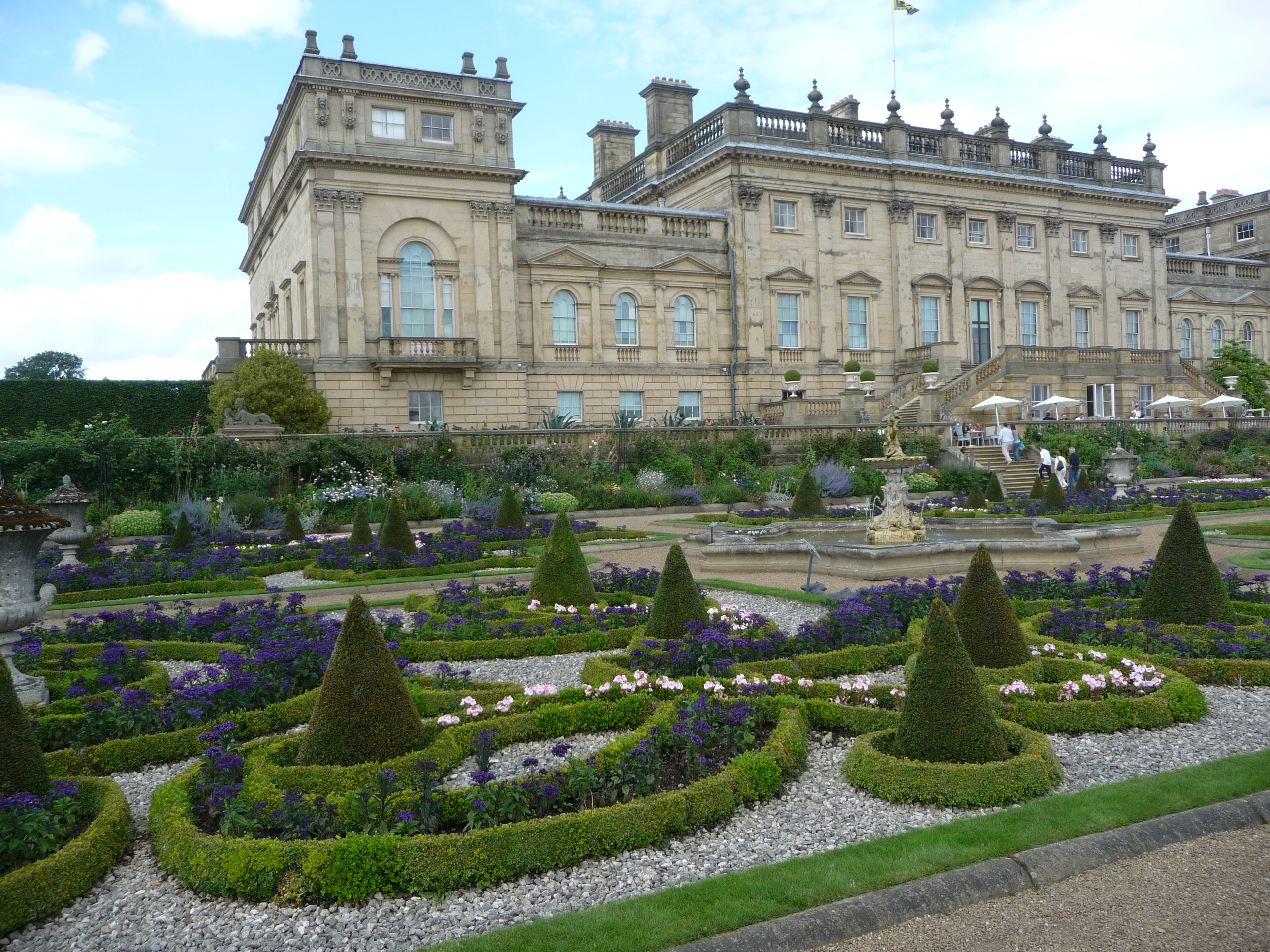 Gardens of Harewood House in Harewood, West Yorkshire, United Kingdom